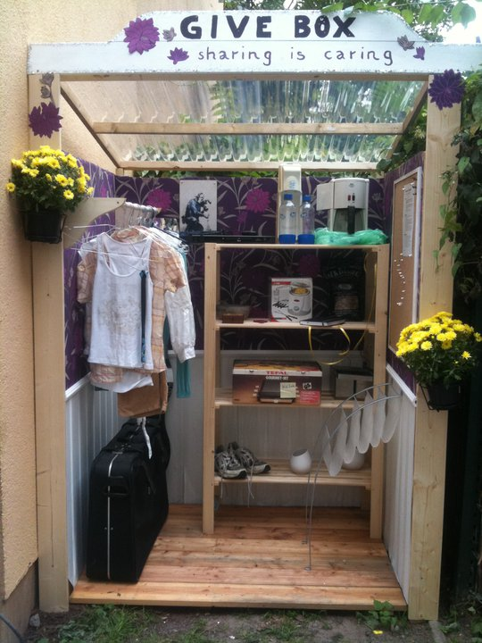 First Givebox Berlin Steinstraße 37